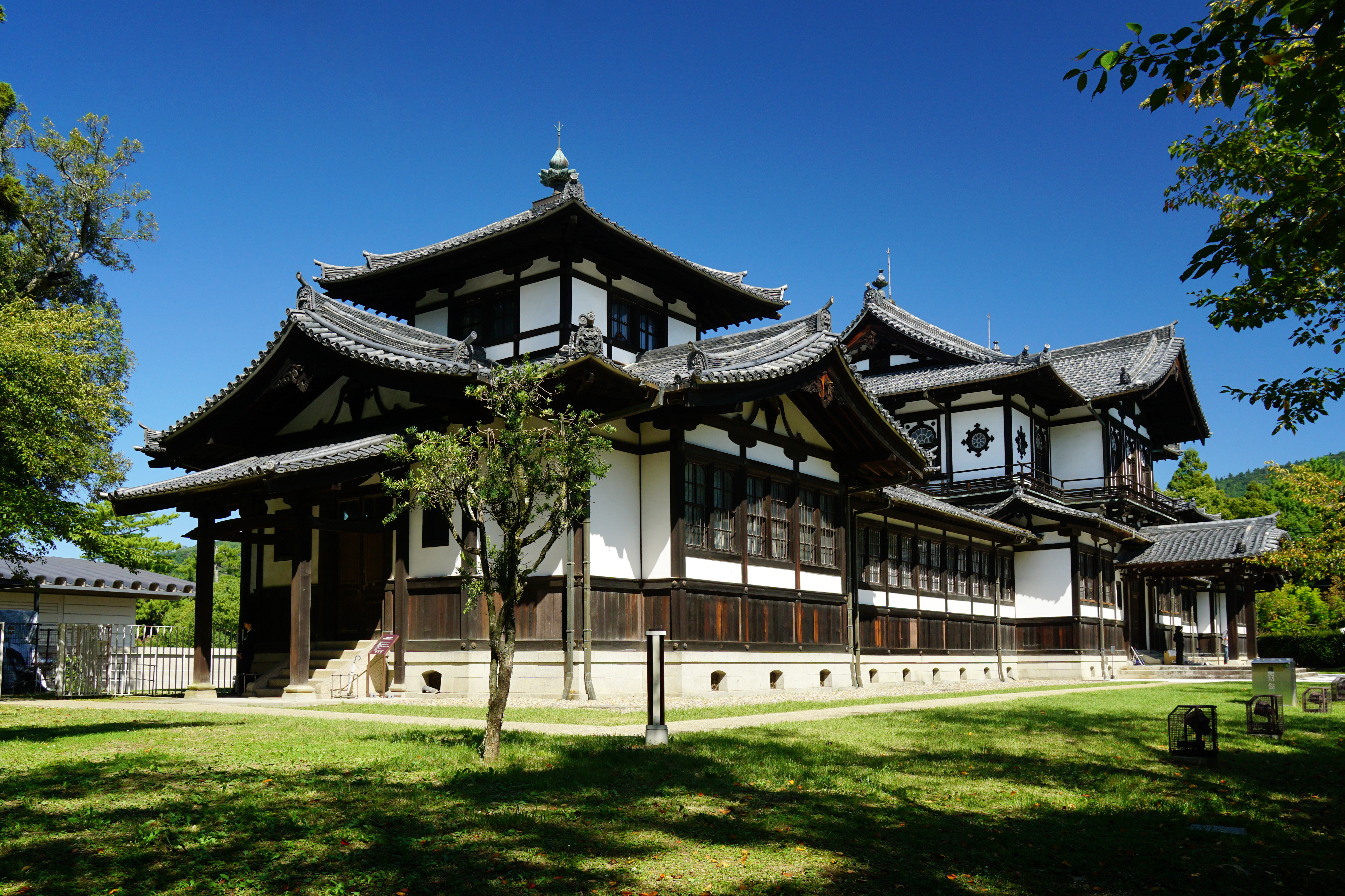 Research Center for Buddhist Art Materials of Nara National Museum in Nara, Nara prefecture, Japan.